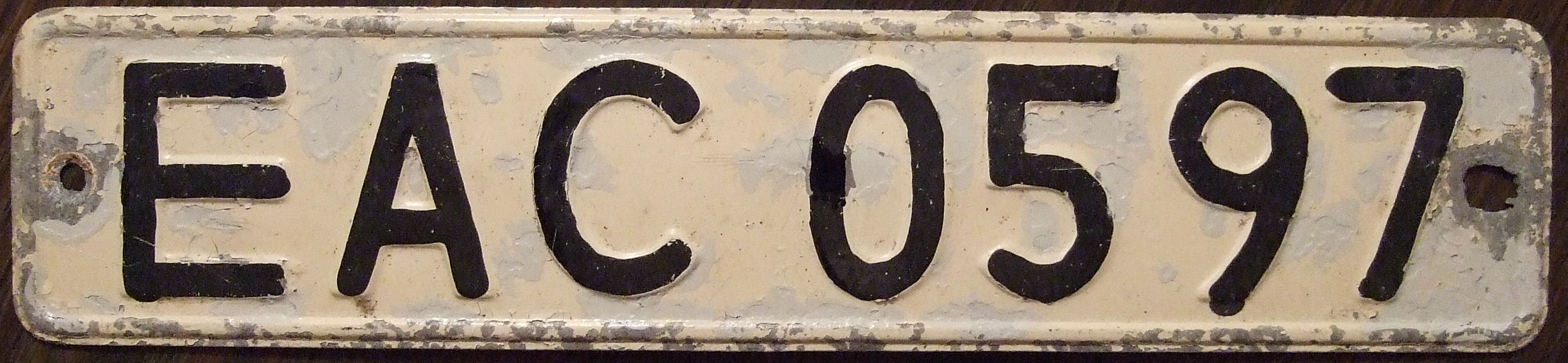 This plate with the letter "C" in the third position is issued to Soviet goverment official vehicles.